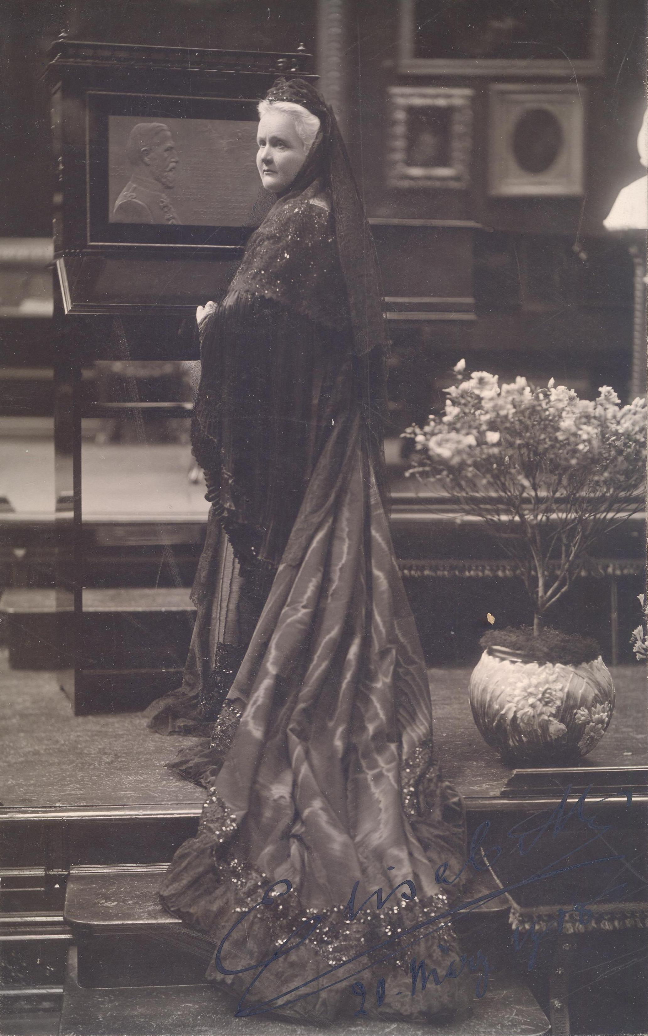 Queen Elisabeth of Romania